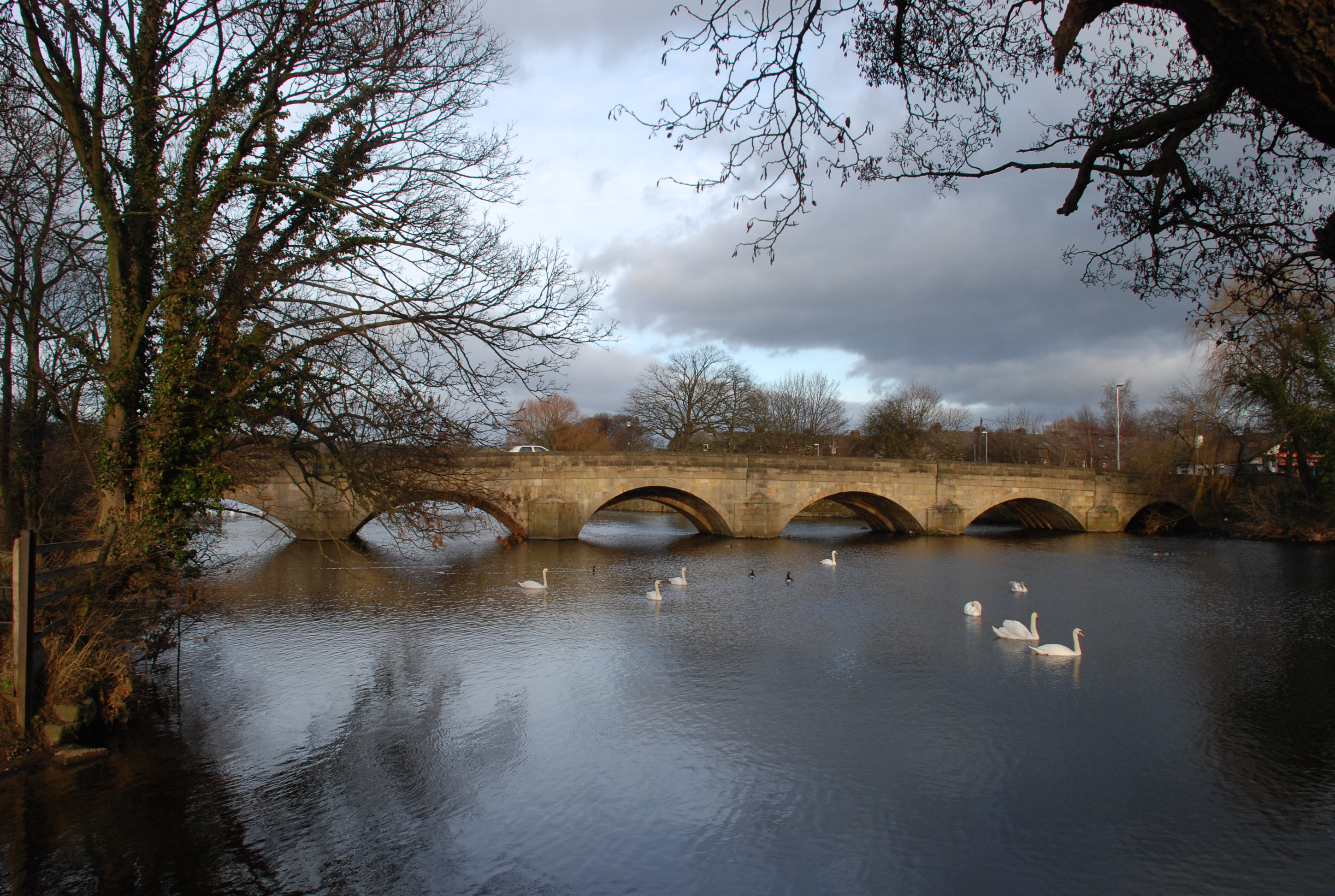 Photograph of River Bridge, Otley, West Yorkshire